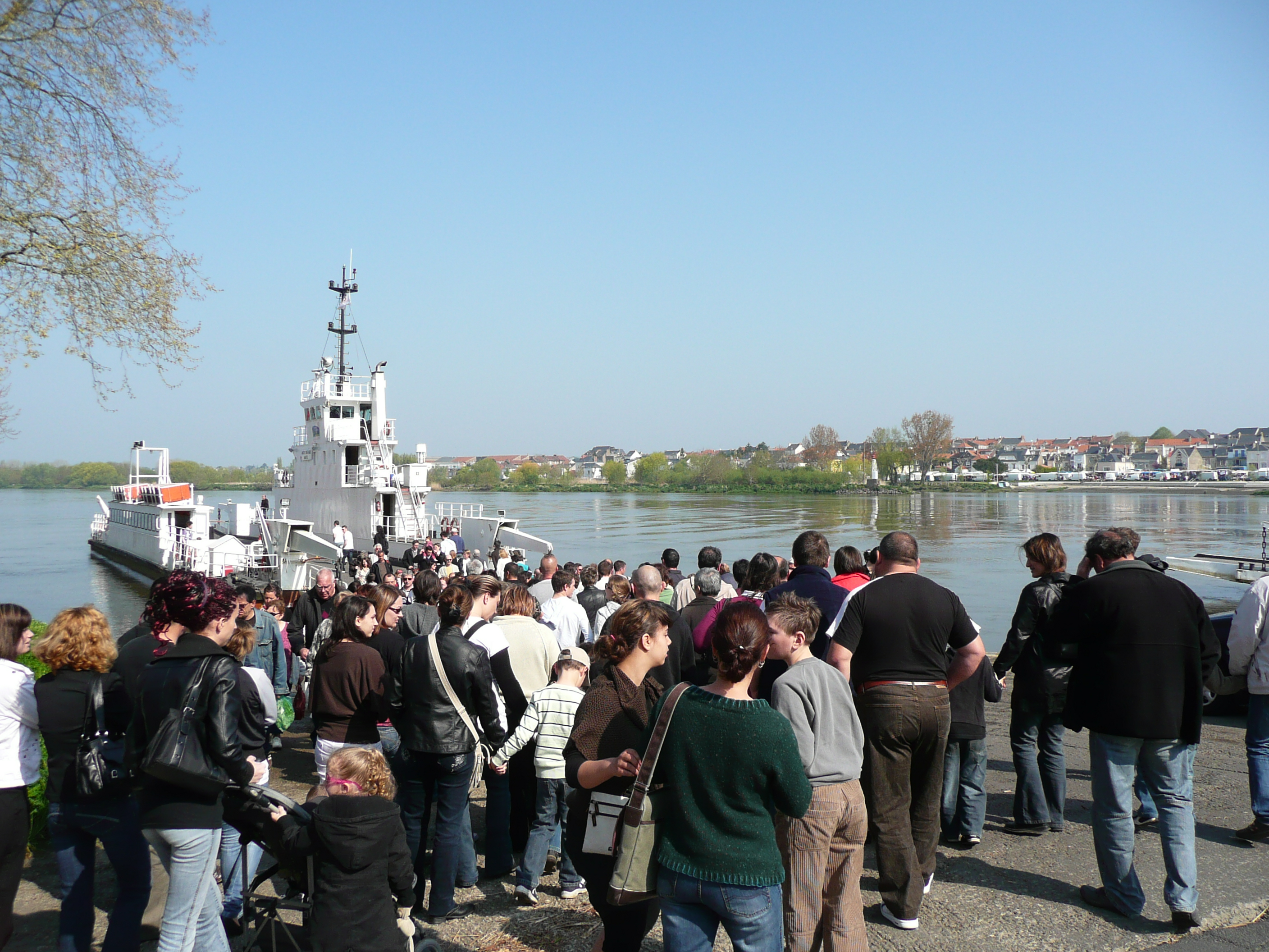 River ferry "Anne de Bretagne" between Basse-Indre and Indret